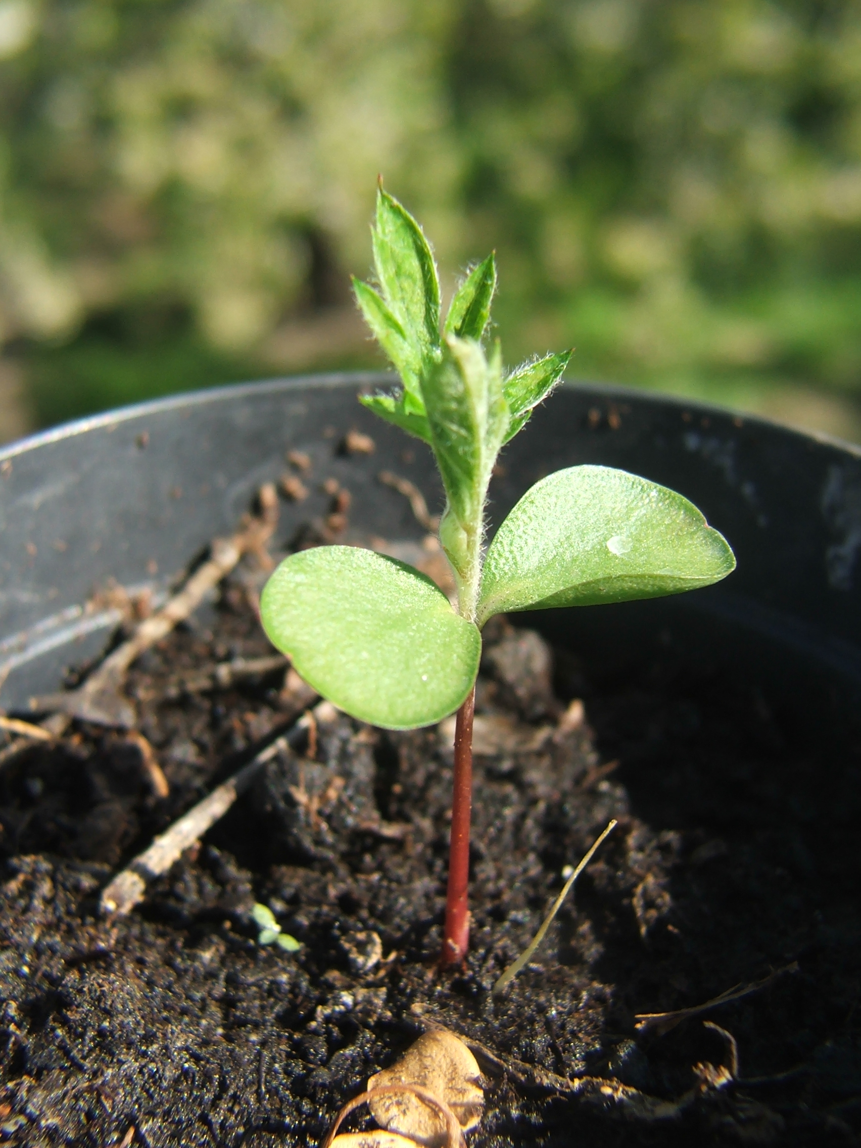 Sorbus domestica seedling